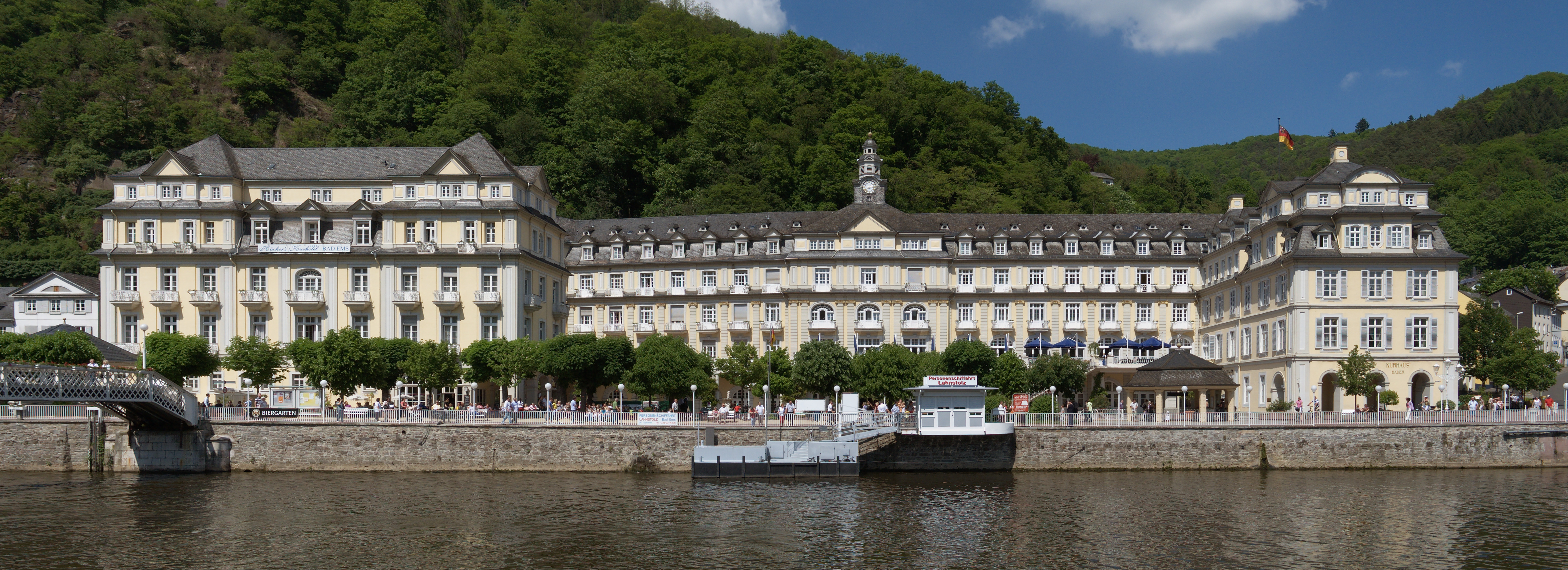 Spa hotel in Bad Ems, Germany.